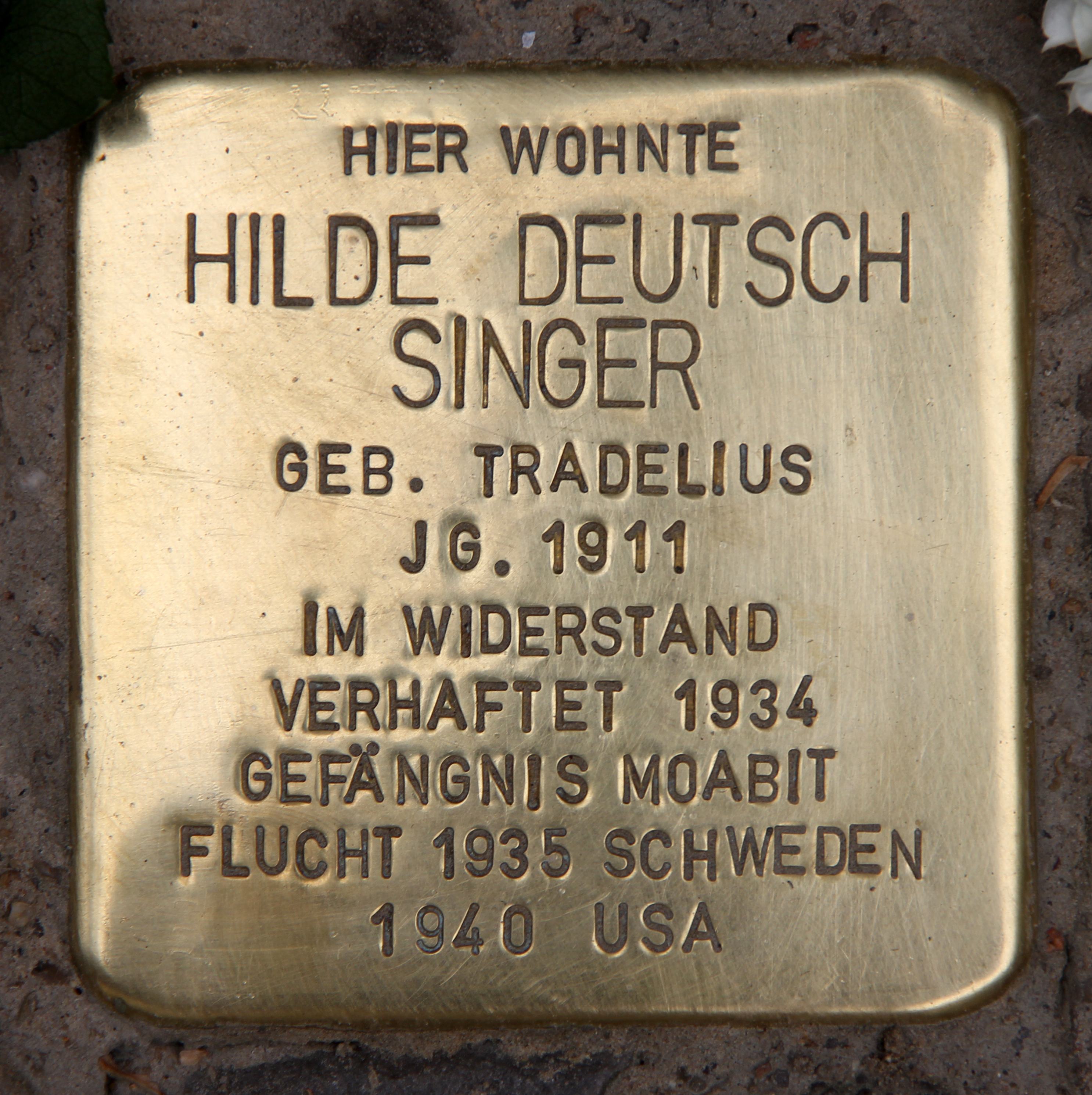 "Stolperstein" (stumbling block), Hilde Deutsch Singer, Jenaer Straße 9, Berlin-Wilmersdorf, Germany